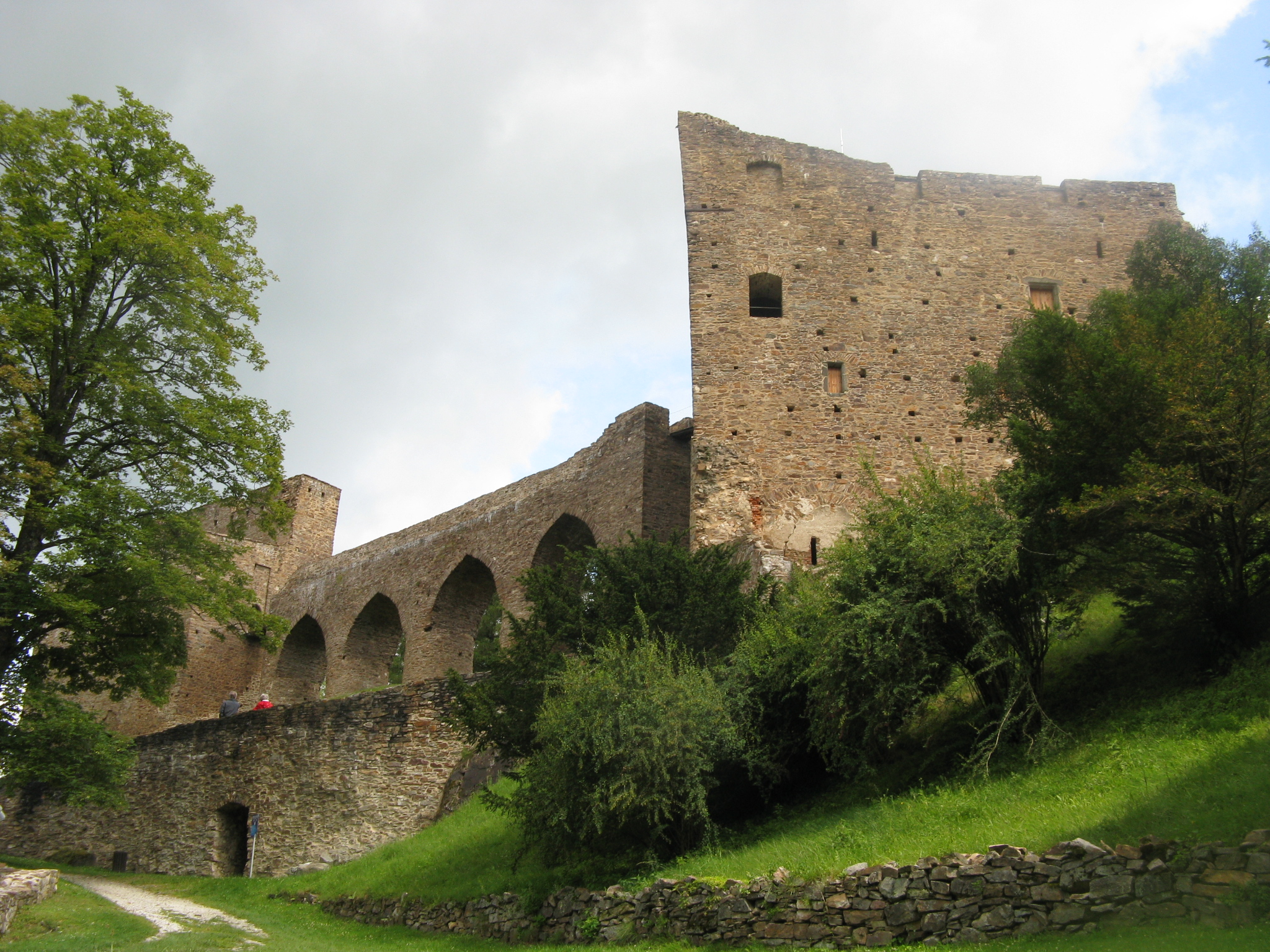 Velhartice Castle, Bohemia; tower, bridge and paradise building